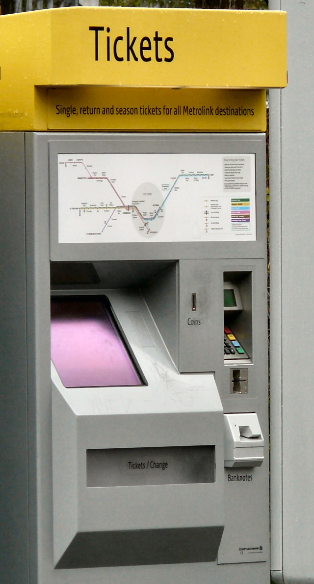 A Metrolink ticket vending machine at Stretford, Greater Manchester, England.